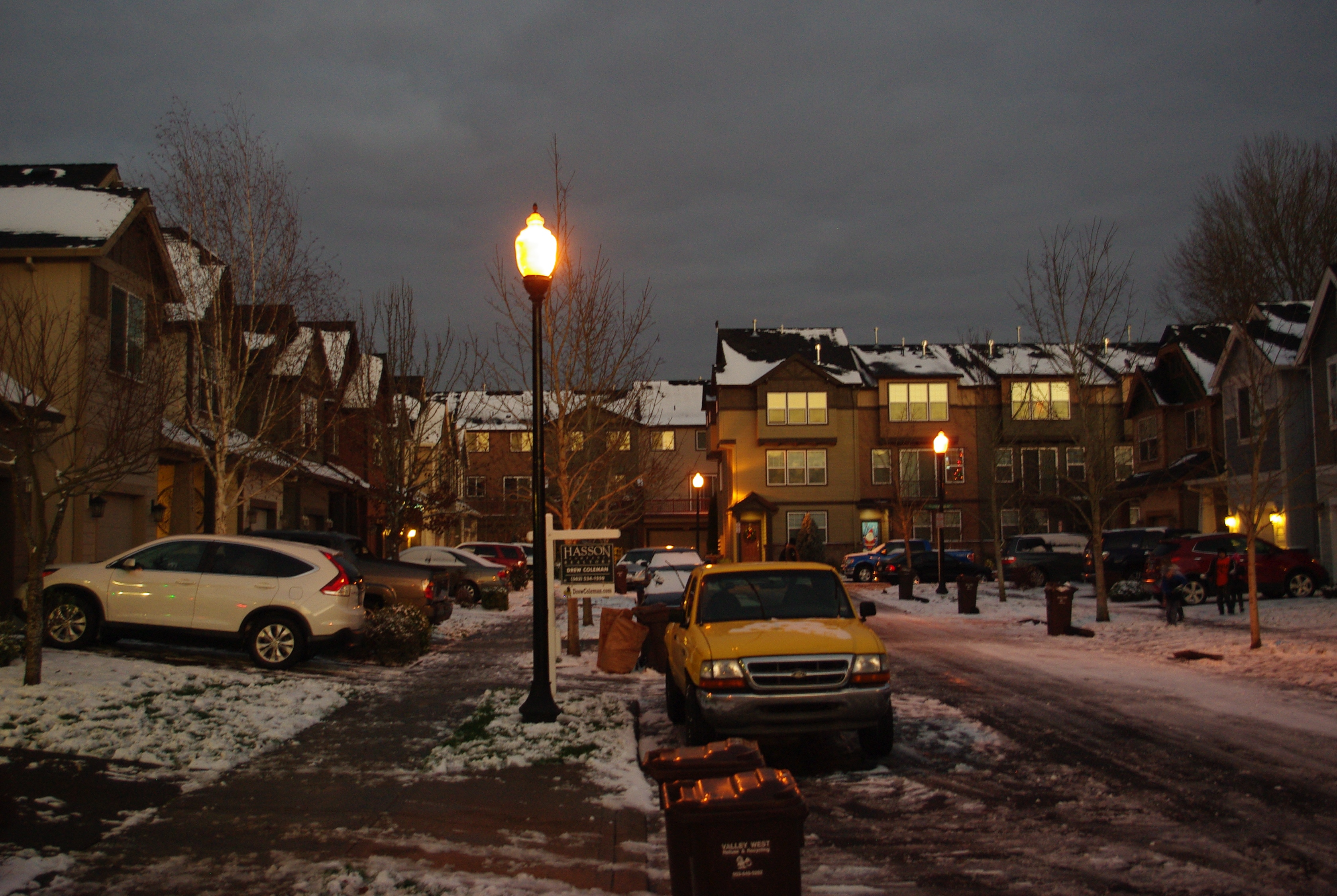 Snowy street scene in Hillsboro, Oregon's Witch Hazel neighborhood.